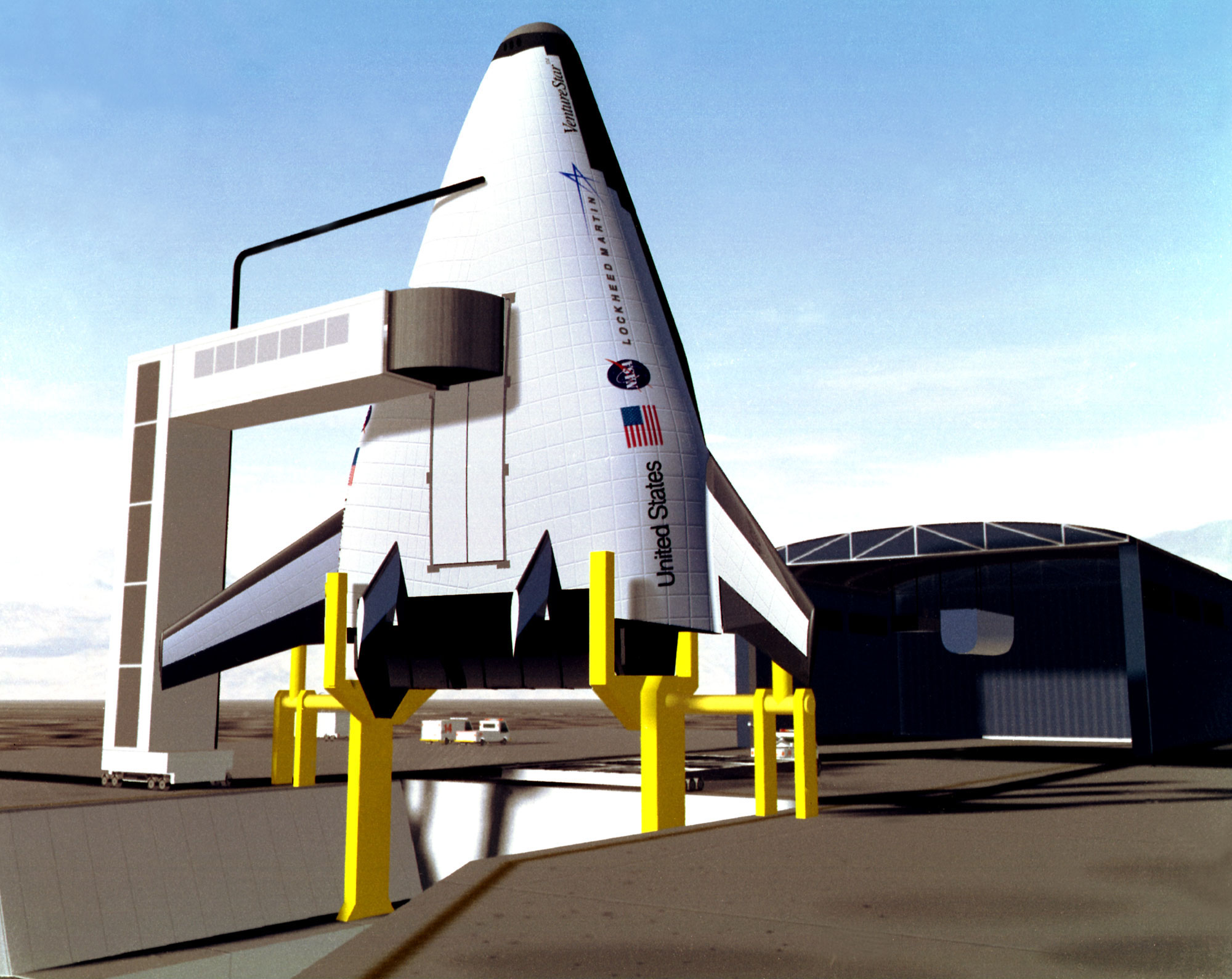 This is an artist's conception of the VentureStar single-stage-to orbit Reuseable Launch Vehicle (RLV) on its launch pad, ready for lift-off into orbit. The X-33 was intended to be a technology demonstrator vehicle for such a possible RLV. The RLV technology program was a cooperative agreement between NASA and industry. The goal of the RLV technology program was to enable significant reductions in the cost of access to space, and to promote the creation and delivery of new space services and other activities that would improve U.S. economic competitiveness.